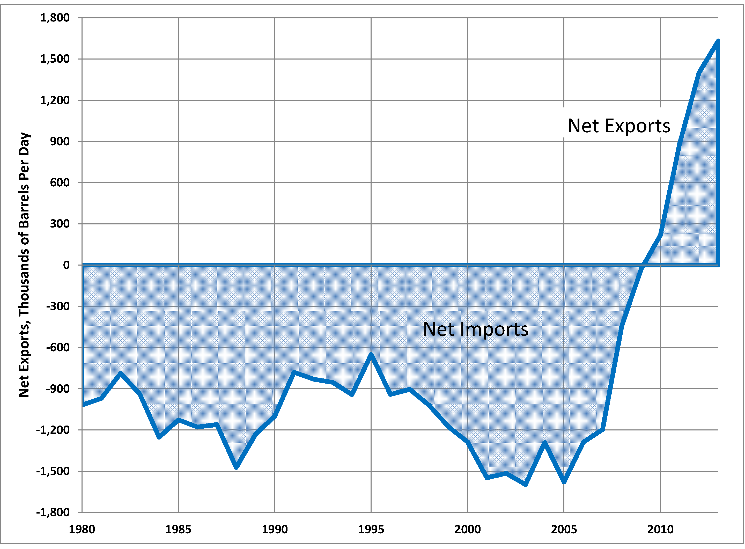 Net US exports (exports minus imports) of refined petroleum products, 1980-2013. Data from OPEC